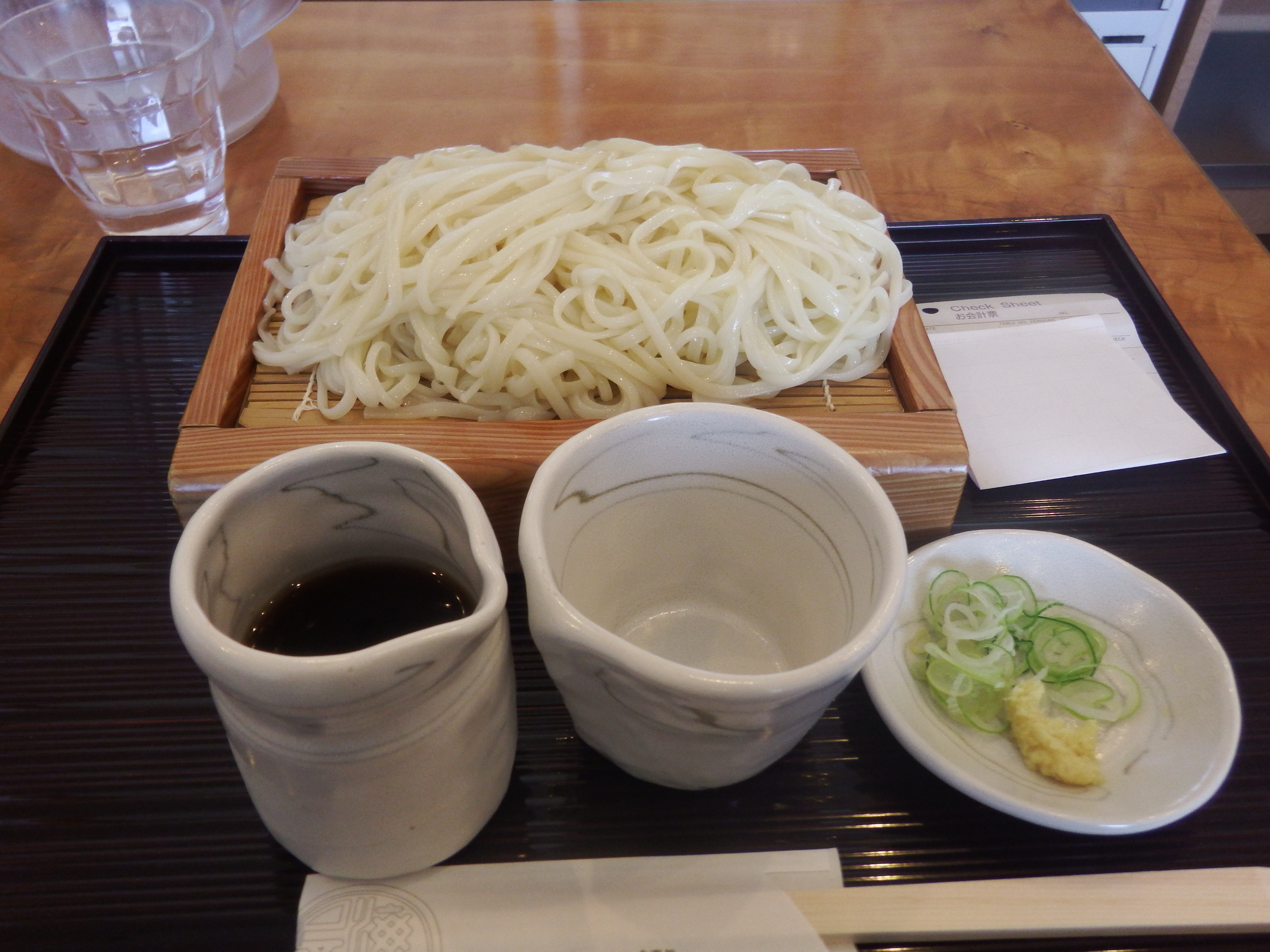 Himi-udon,the traditional udon around Takaoka and Himi city（Toyama Prefecture,Japan）